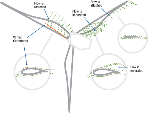 Sketch describing how vortex generators improve wind turbine performance.